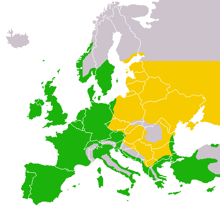 Gallinuta chloropus; range map; yellow=summer; green=yearround